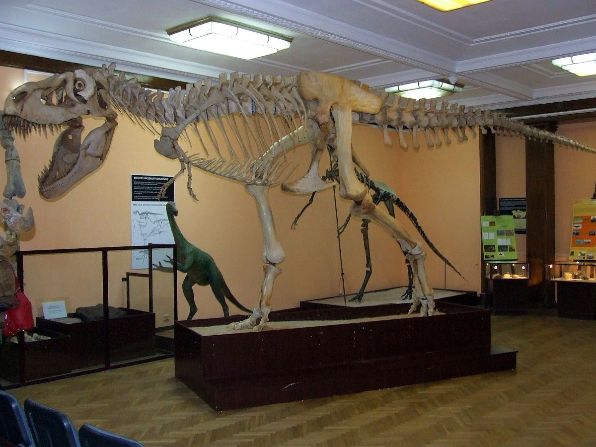 Tarbosaurus bataar skeleton, Muzeum Ewolucji PAN. Click here to see more photos of this skeleton.